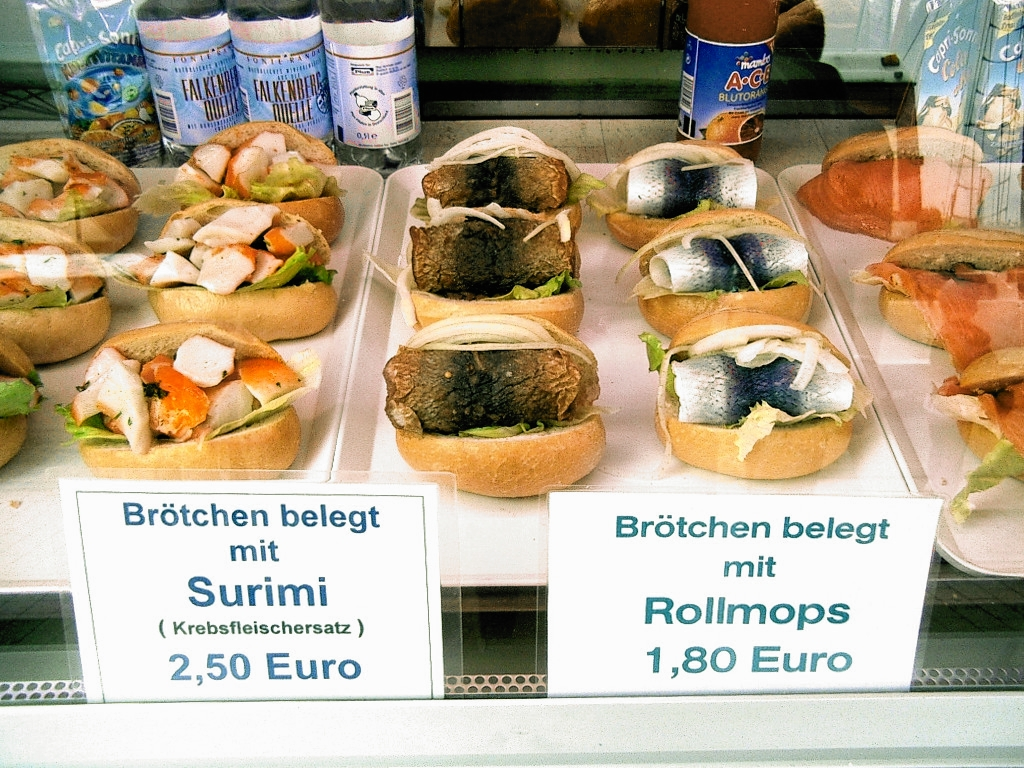 selected fish-sandwiches